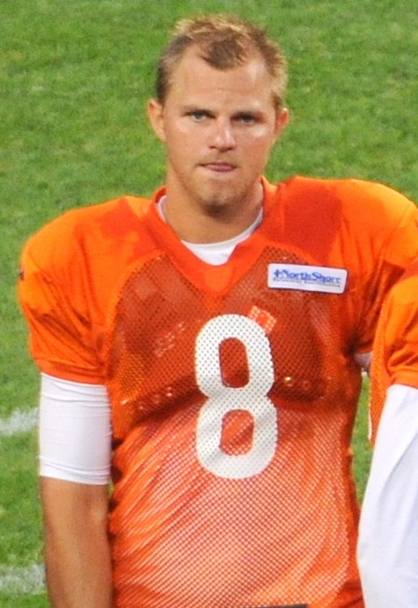 Quarterback, Jimmy Clausen at Chicago Bears training camp in 2014.